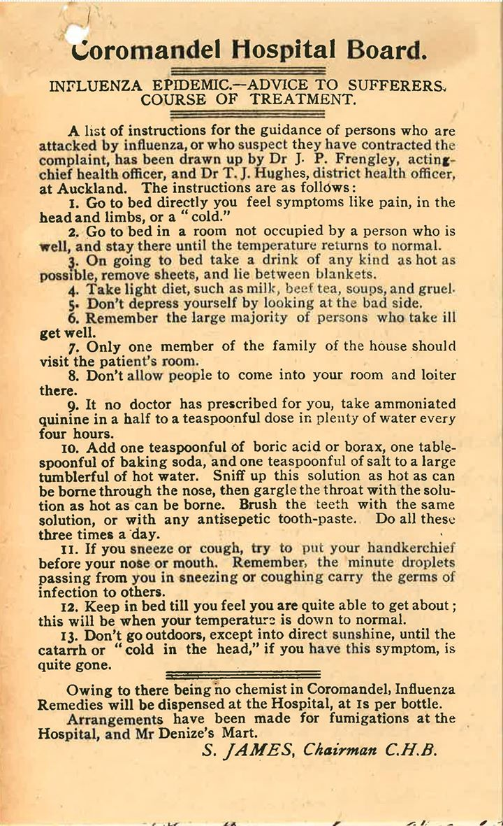 In response to the epidemic, the Health Minister contacted local authorities, giving them the initiative to organise relief efforts. Central committees were formed, and areas divided into blocks with “depots”. Coromandel Hospital Board issued this advisory leaflet - even a hundred years ago peoples’ mental health was considered, as the advice included “Don’t depress yourself by looking at the bad side” Archives New Zealand Reference: BAAK 19836 A49/83h Material from Archives New Zealand Te Rua Mahara o te Kāwanatanga